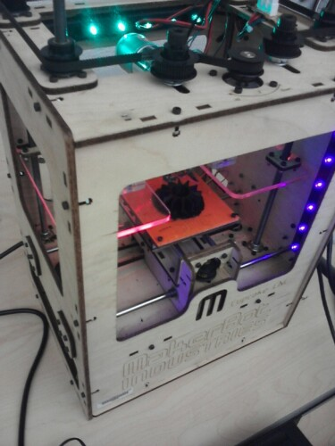 Image of HCC MakerBot Cupcake CNC printing of spikey gear and raft in the MakerBot 3D printer.